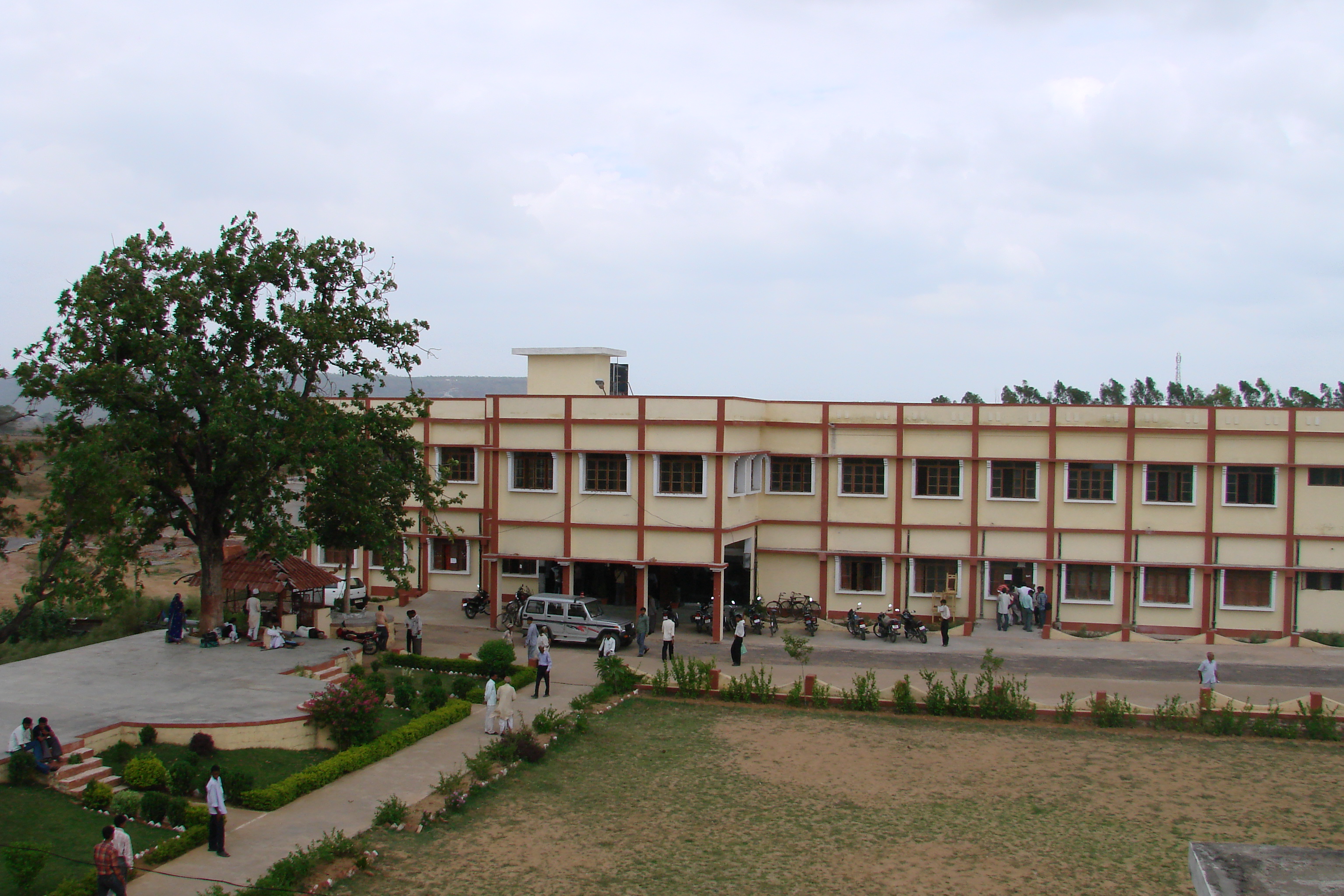 Students Hall of Residence in JRHU